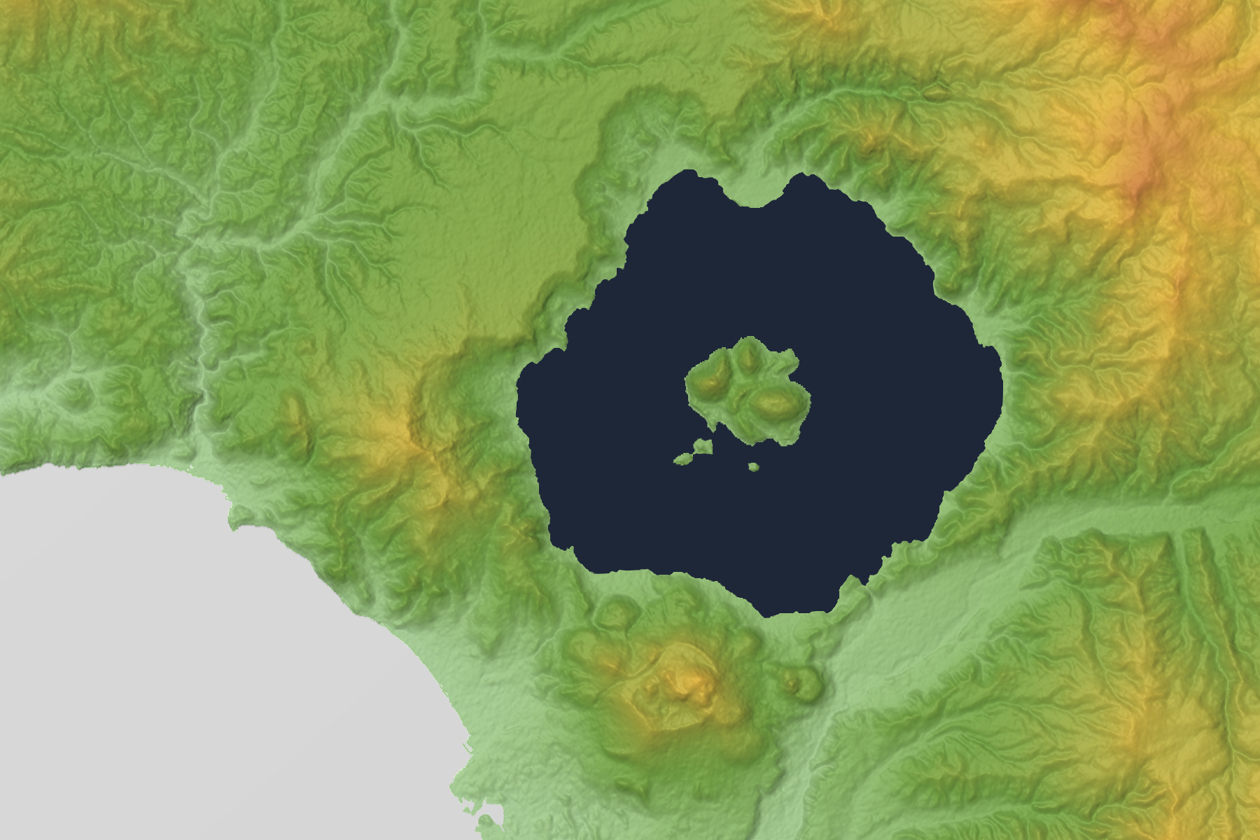 Lake Toya and Toya Caldera in Hokkaido, Japan. This file updated by 30m Mesh.